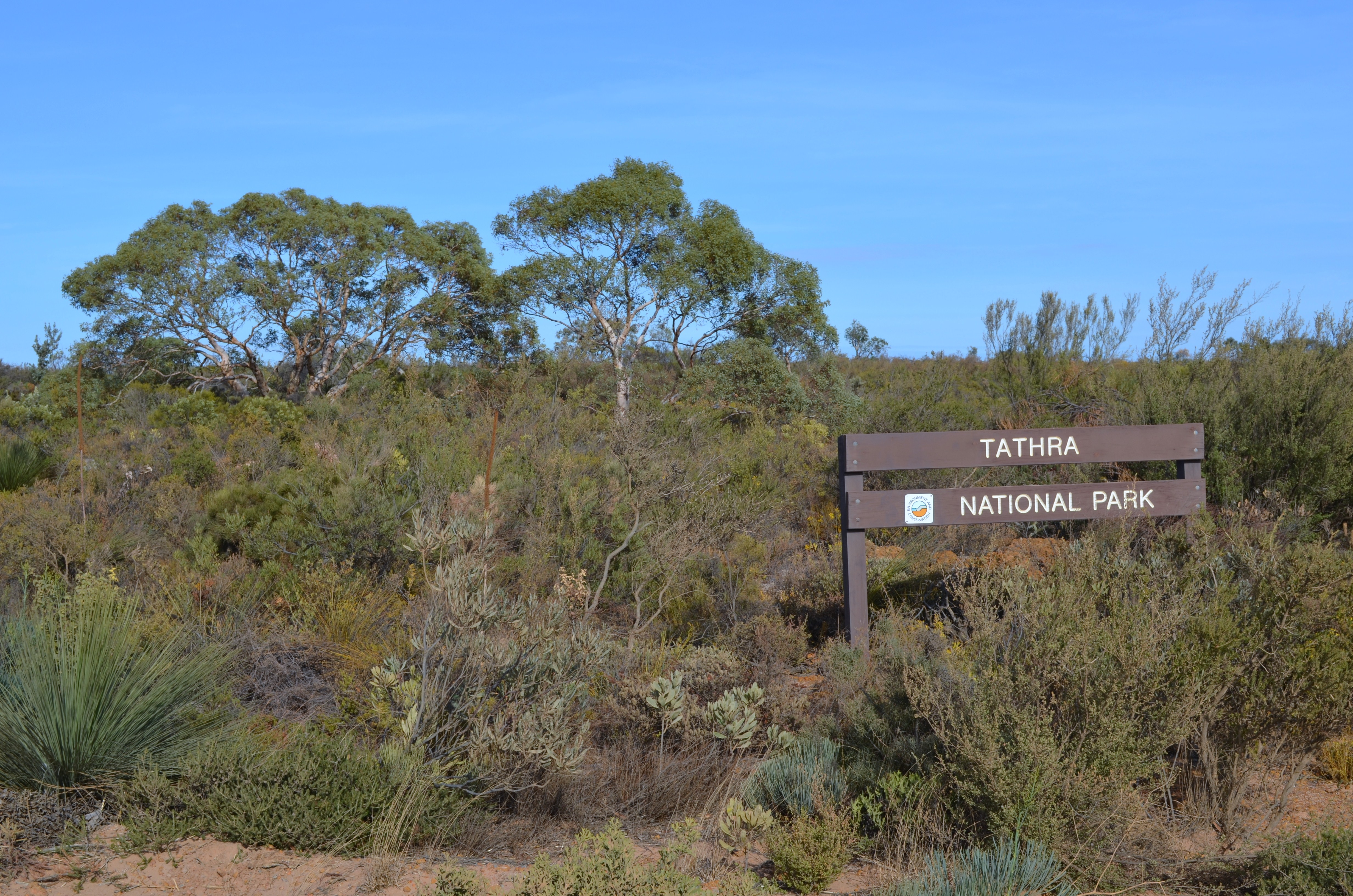 Sign denoting the northeastern corner of the portion of Tathra National Park south of the Carnamah–Eneabba Road, in the Mid West region of Western Australia.